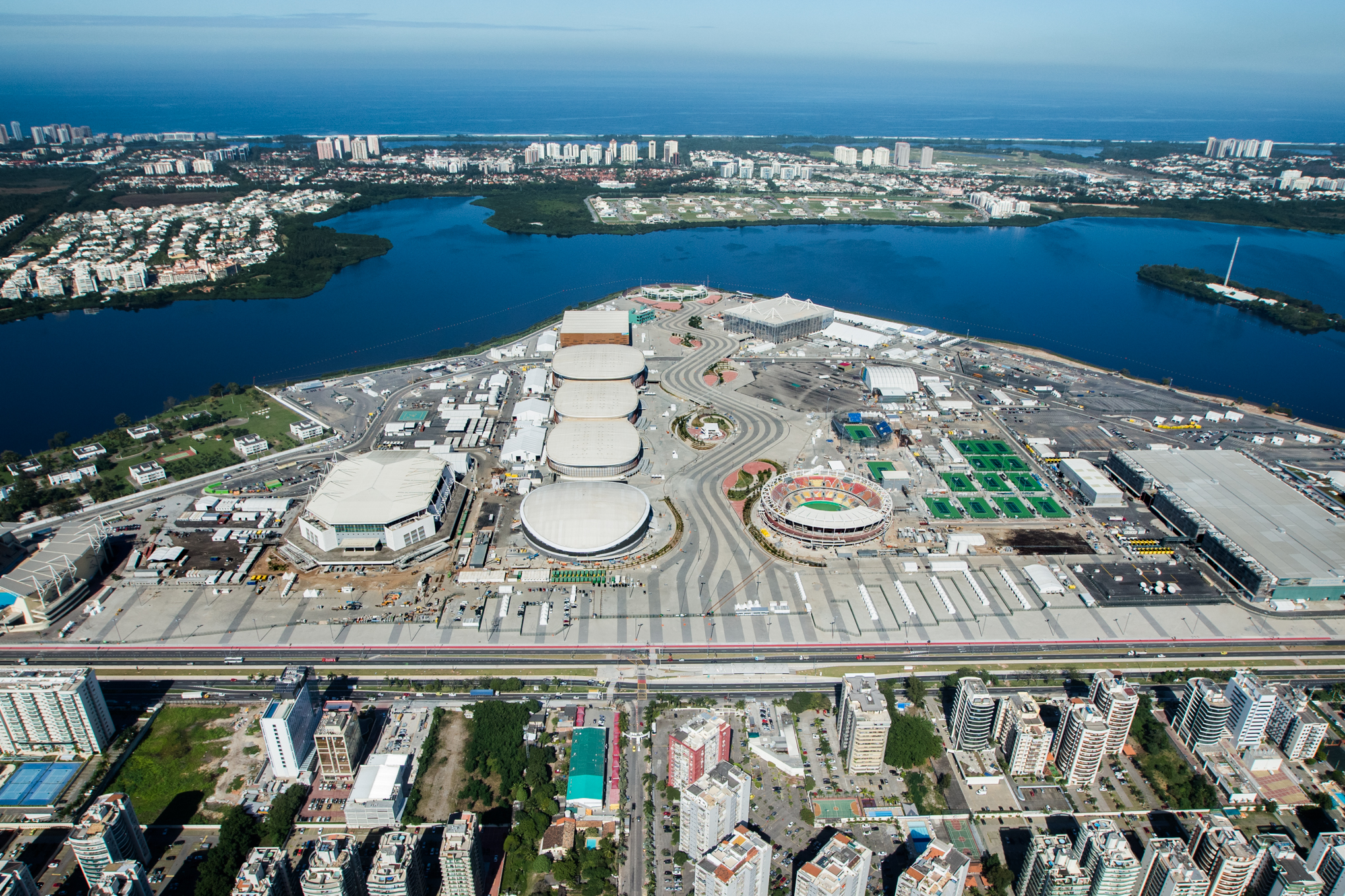 The Rio de Janeiro Olympic Park of 2016 Summer Olympics with a view to the coast of the Atlantic Ocean in the South.